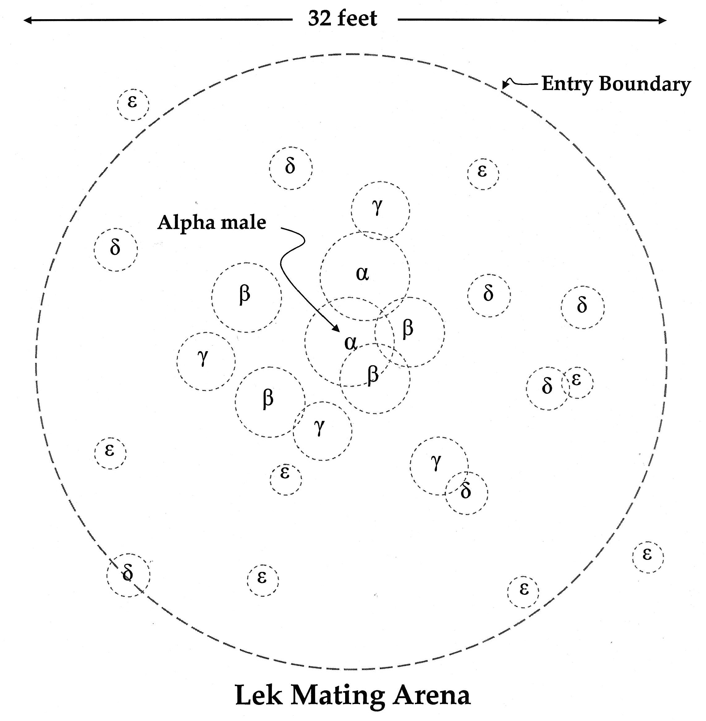 Made by Libb Thims (User:Sadi Carnot)